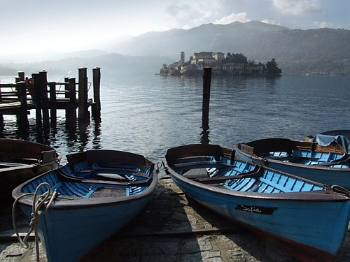 Lago d'Orta picture taken by user Idéfix october 28, 2006